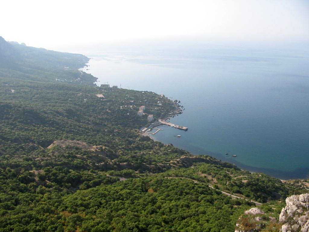 Sarych headland near Foros, Ukraine.